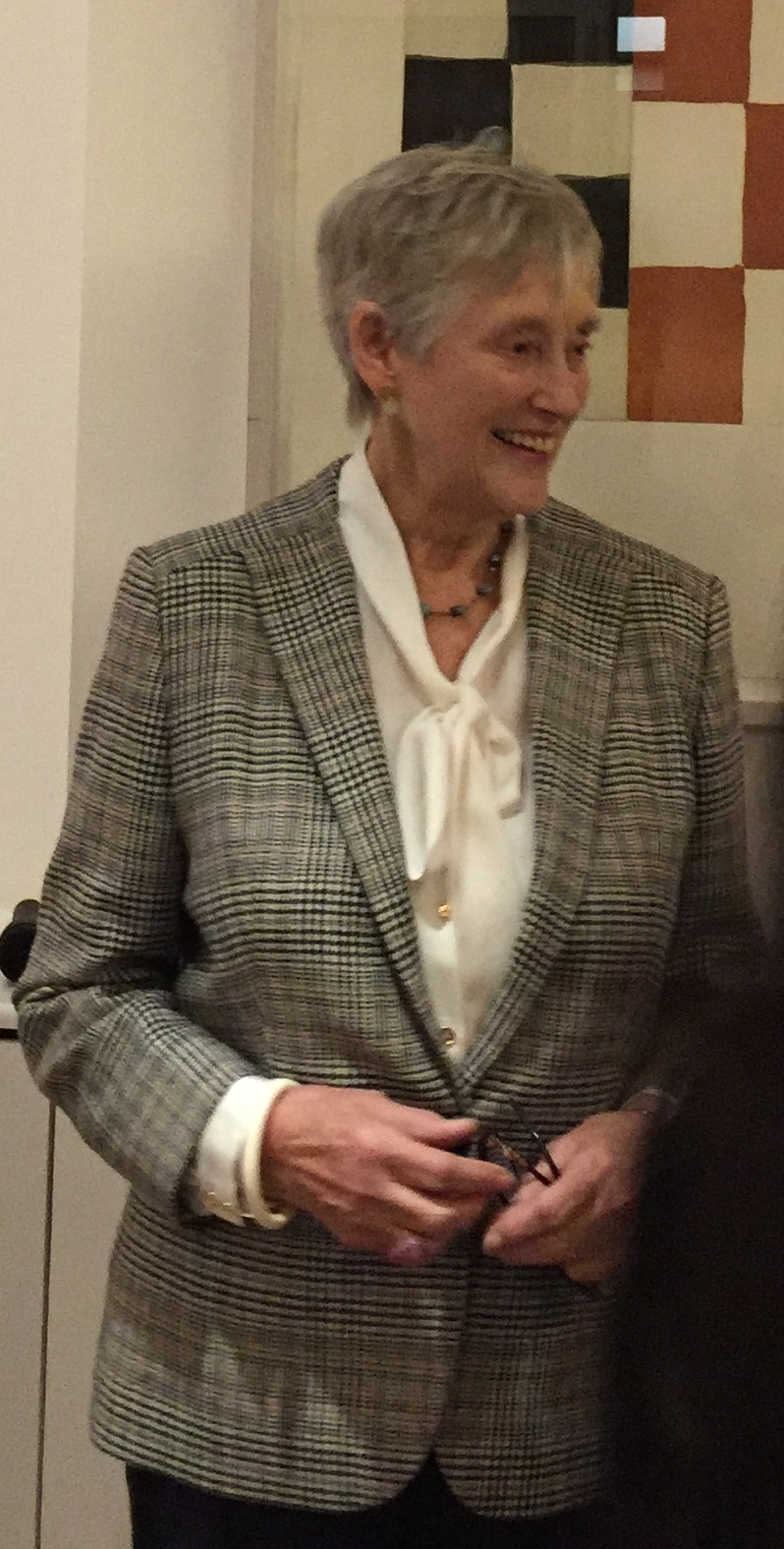 Stella Rimington at the Women in Learning and Leadership (WILL) anniversary in 2016.